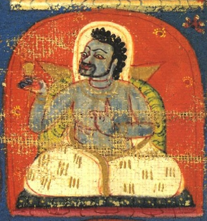 Padampa Sanggye , eleventh century Zhije teacher in Tibetan Buddhism